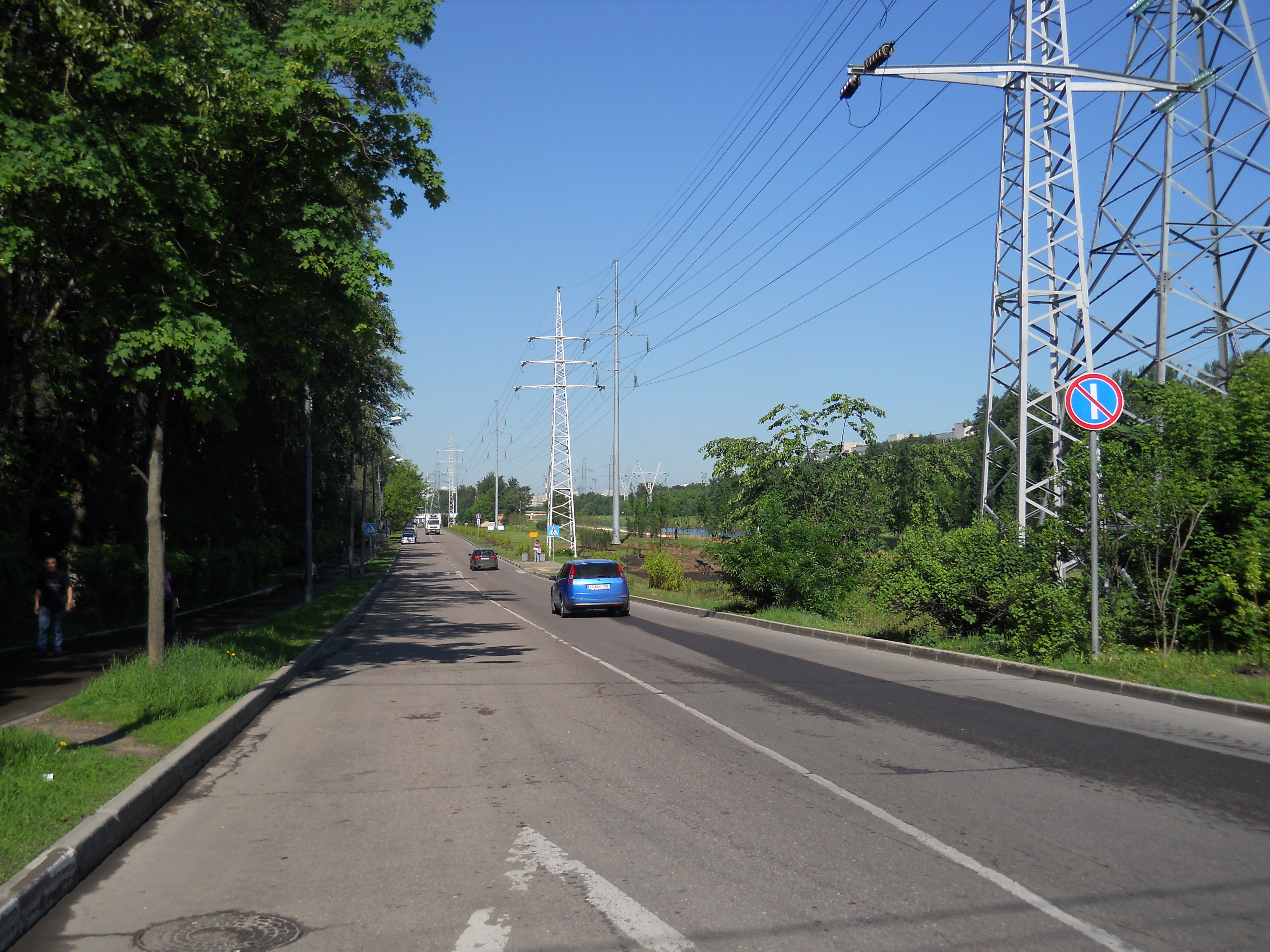 Malaya Naberezhnaya street, Moscow, Russia. Heading west. The view from Svobody St.